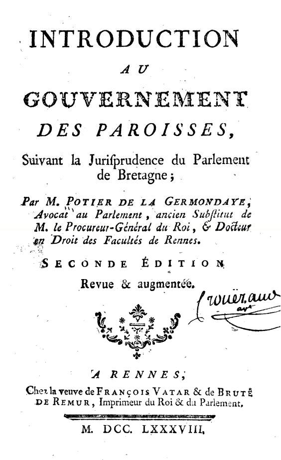 Title page of "Introduction au gouvernement des paroisses", 2nd edition, 1788, juridical book from France (Brittany local old laws), written by Henri François Potier de La Germondaye (d. 1797).